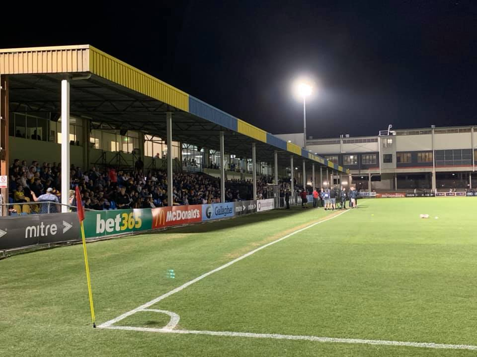 Perry Park. Photograph taken on October 1, 2019, at the FFA Cup semi final between Brisbane Strikers and Melbourne City (crowd 3706).